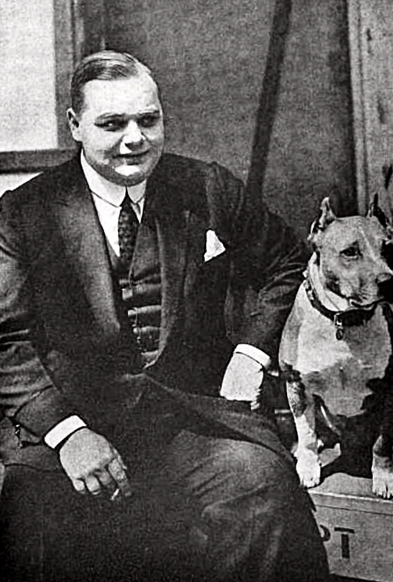 Photograph of Roscoe "Fatty" Arbuckle with his dog Luke; illustration used in Carolyn Lowrey's book The First One Hundred Noted Men and Women of the Screen (New York: Moffat, Yard and Company, 1920), p. 7; image depicts Arbuckle attired in a three-piece suit smoking a cigarette while sitting on a wooden crate next to his dog Luke, a Staffordshire Bull Terrier; better up image from different copy of cited publication.